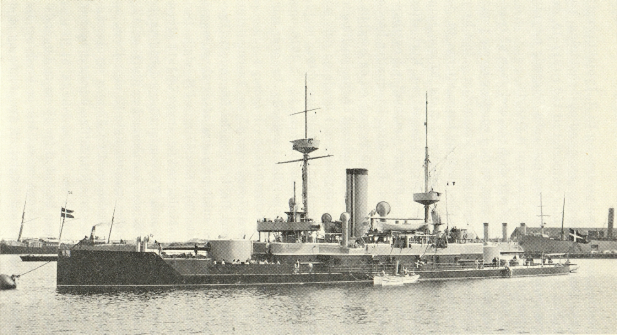 Danish coastal defence ship Herluf Trolle, launched in 1899